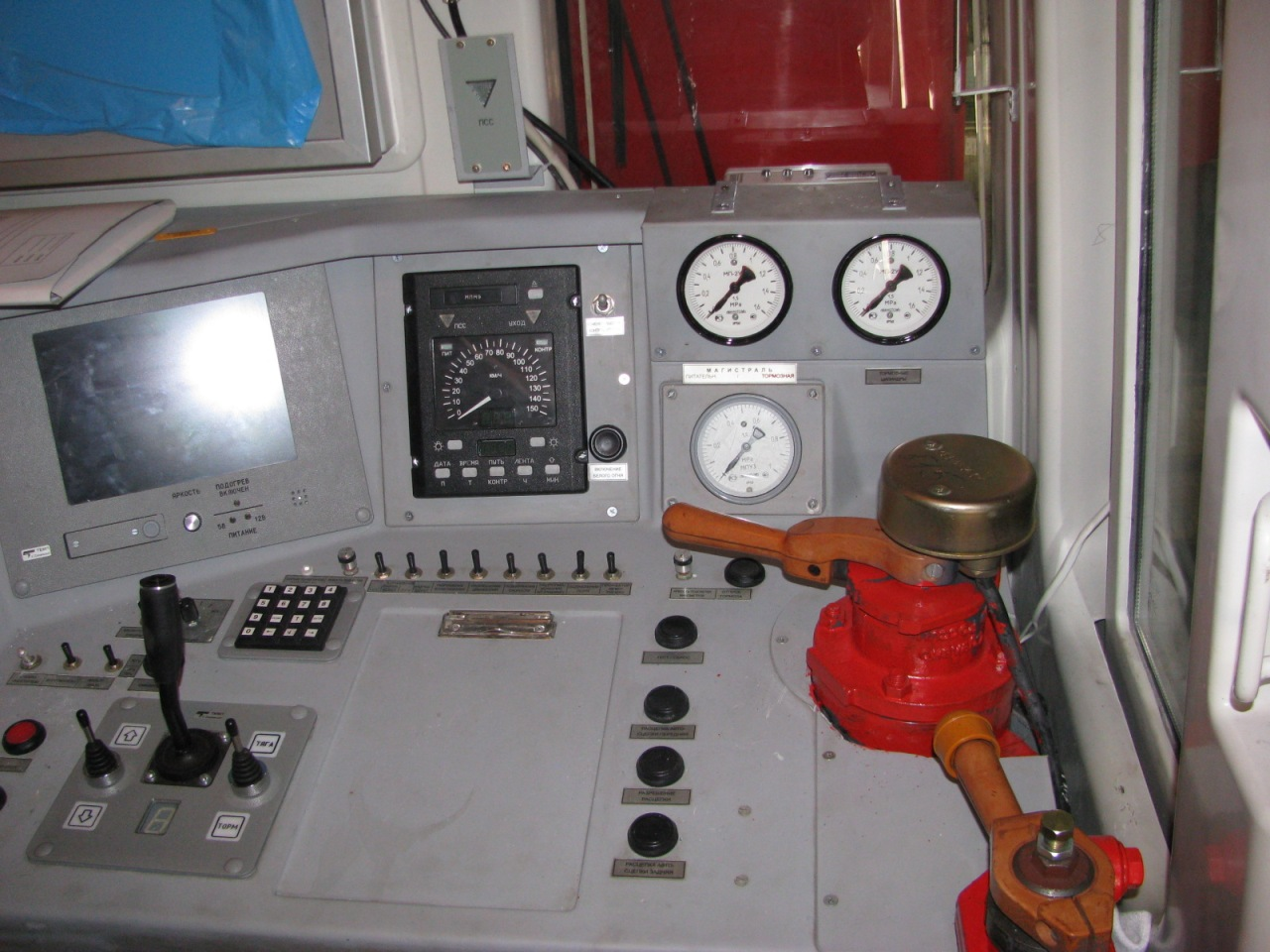 Driver's control panel of diesel locomotive TEM14